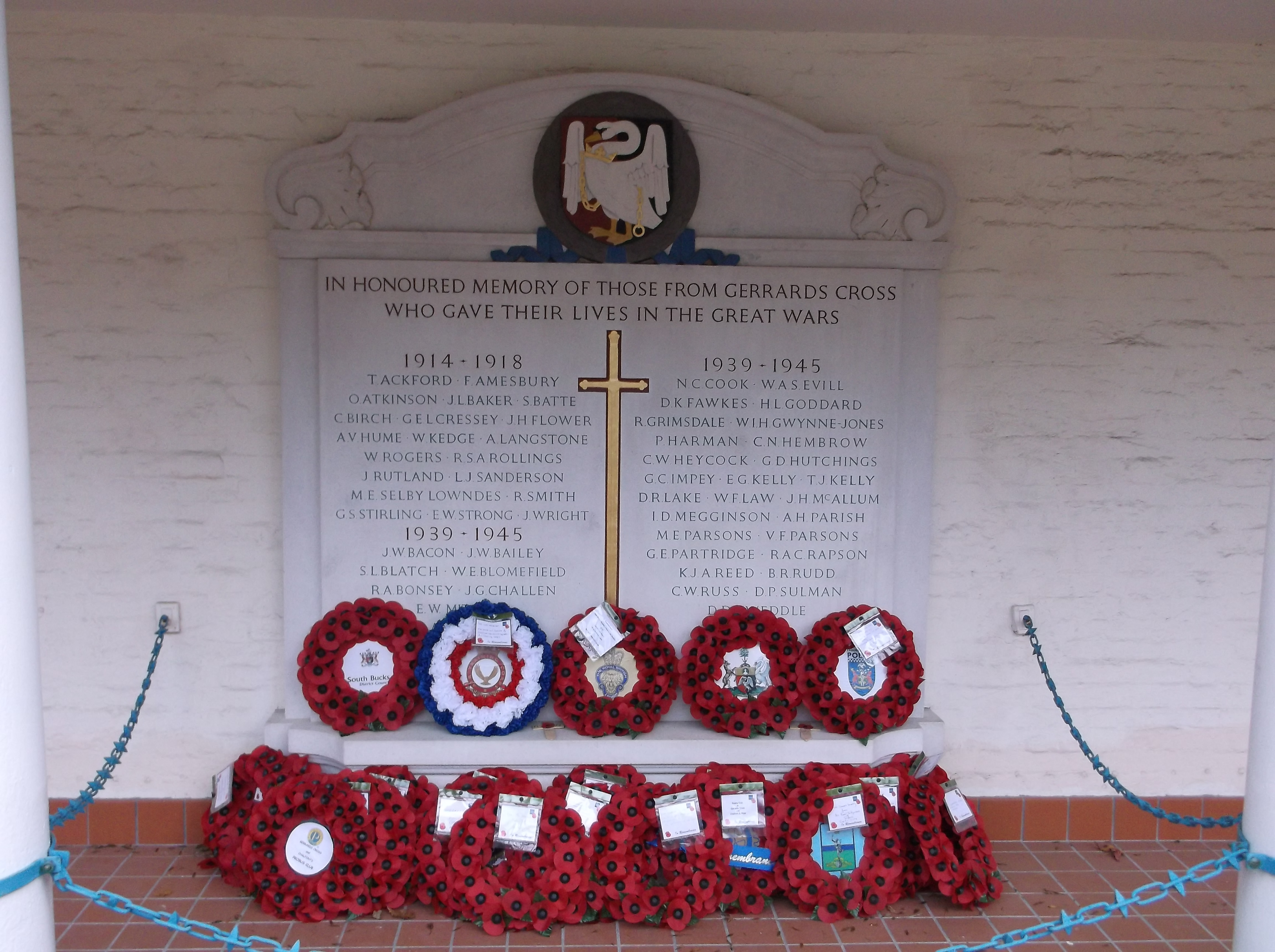 Roll of honour on the front of the Gerrards Cross memorial building